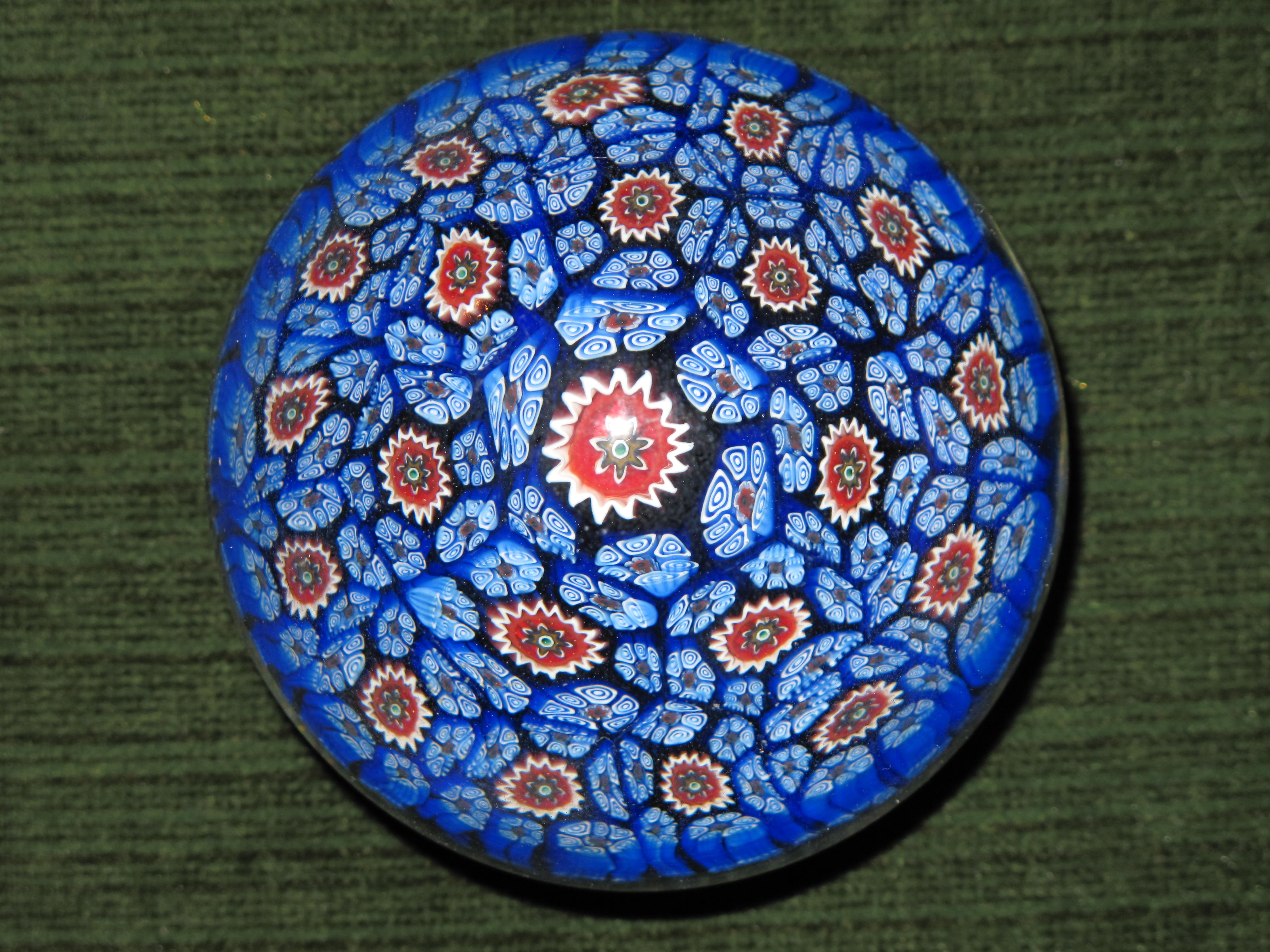 Decorative glass paperweight "millefiori"